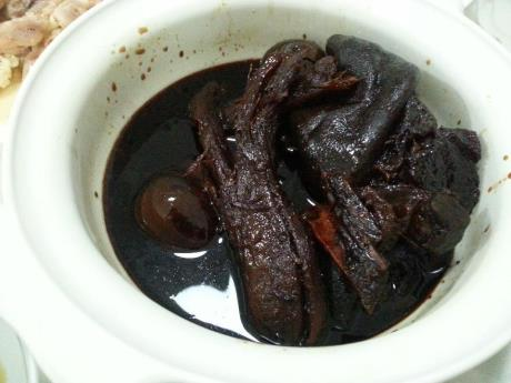 it's a home-made pork knuckles and ginger stew